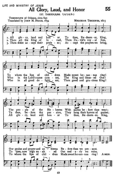 English version of the Latin hymn for Palm Sunday Gloria, laus, et honor